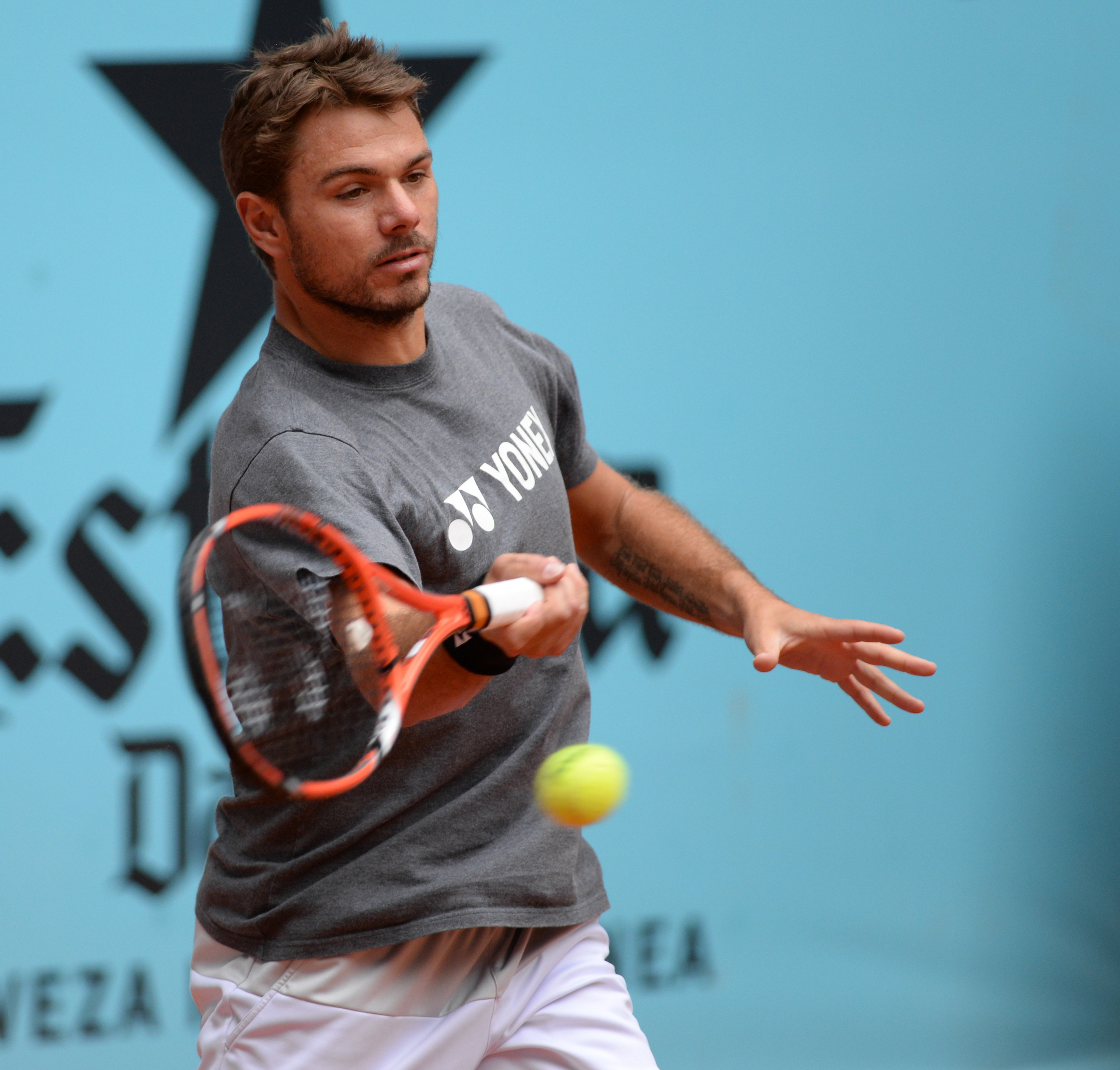 Stanislas Wawrinka